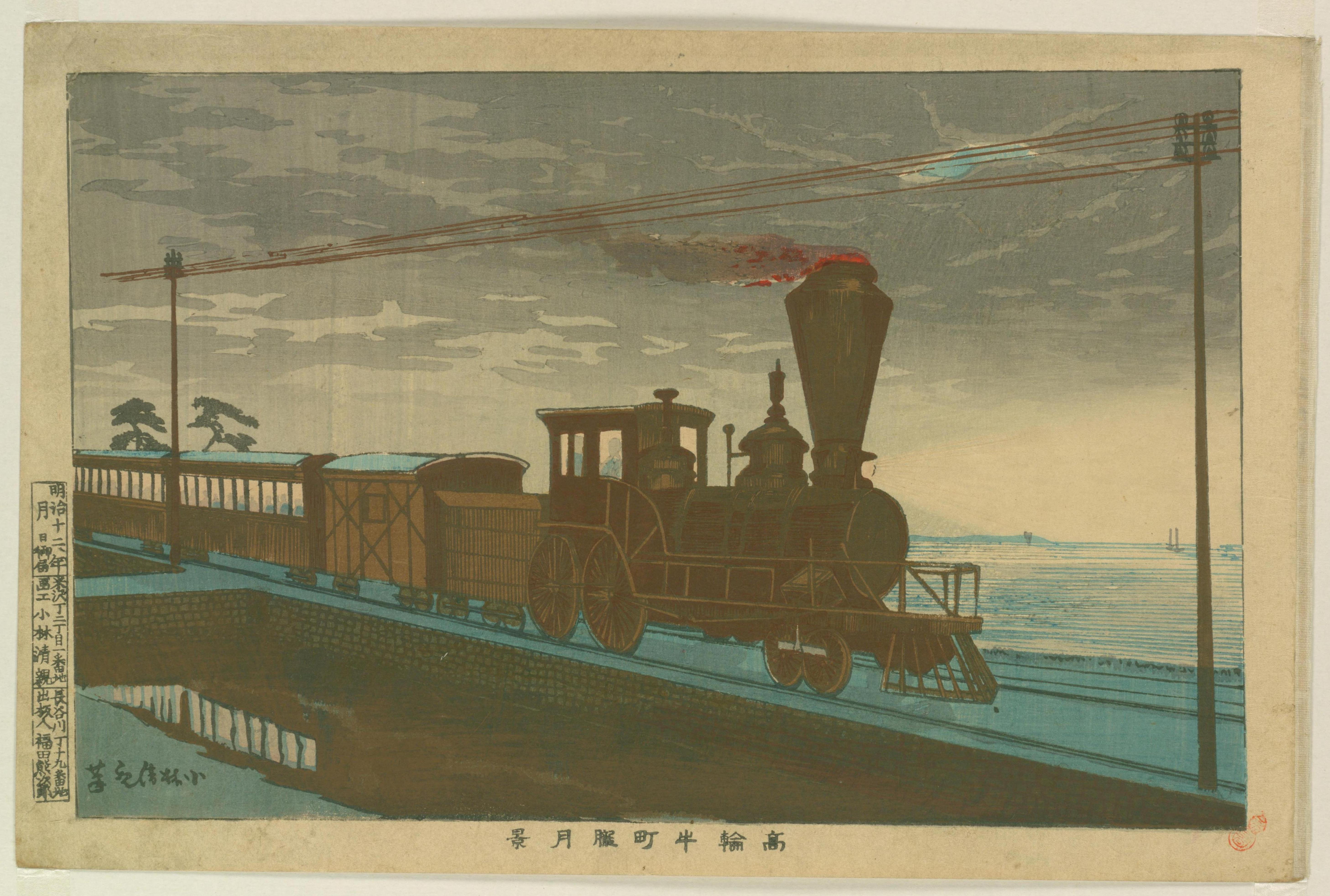 Japanese Ukiyo-e print work in 1879 shows image of early US steam locomotive with cow catcher.